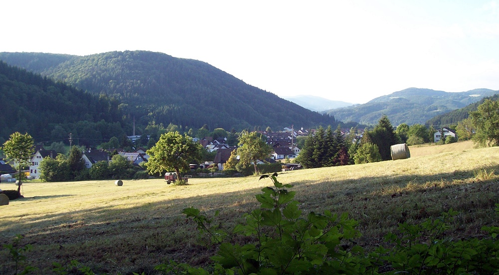 View of Langenau ( Schopfheim )